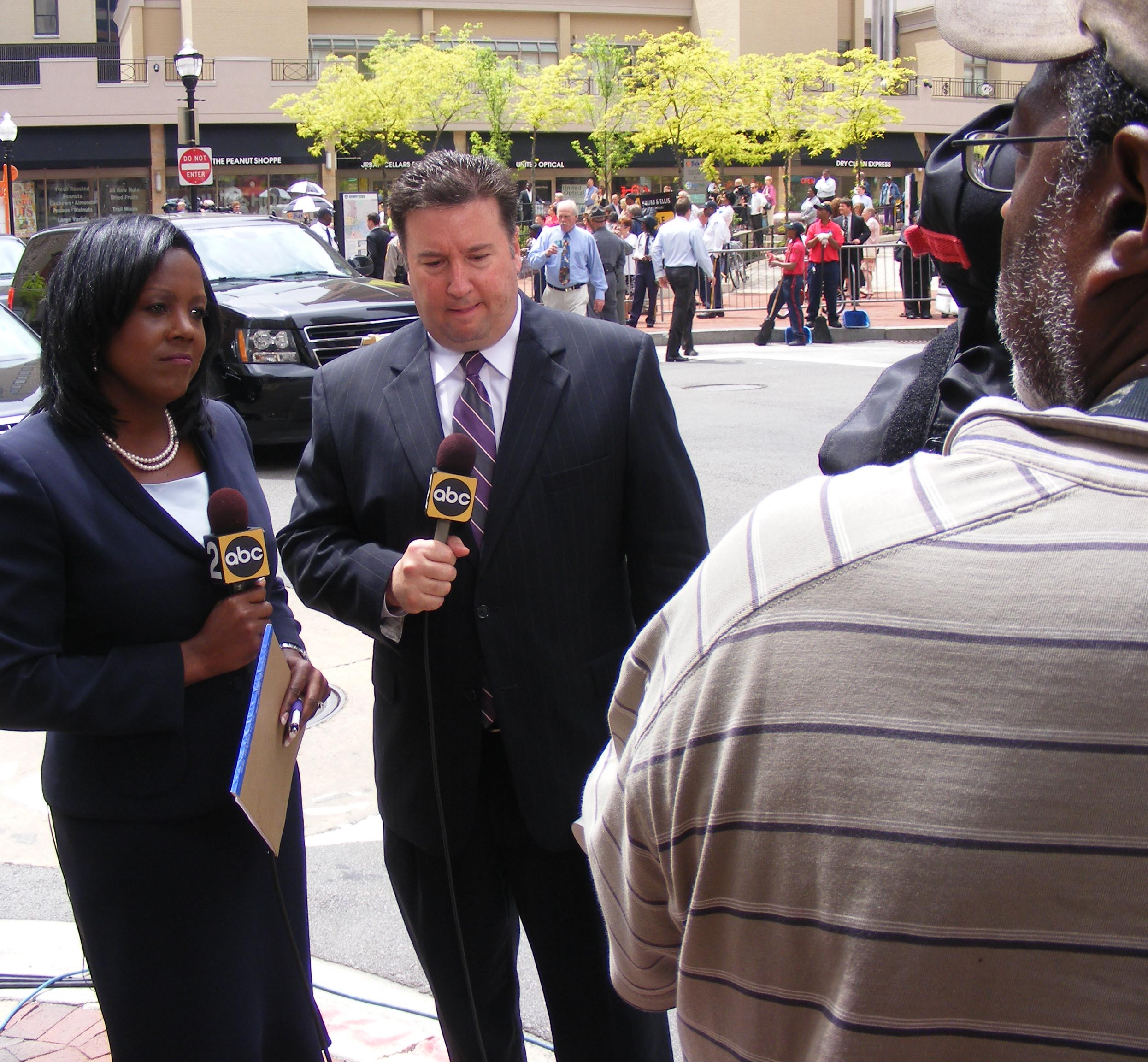 WMAR-TV anchors Kelly Swoope and Jamie Costello prepare for live shot in downtown Baltimore, Maryland. The background is apparently 222 North Charles Street.